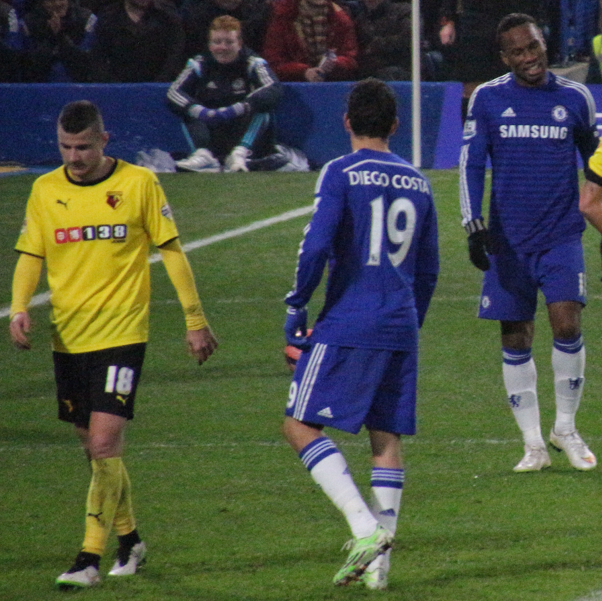 Chelsea vs Watford, FA Cup